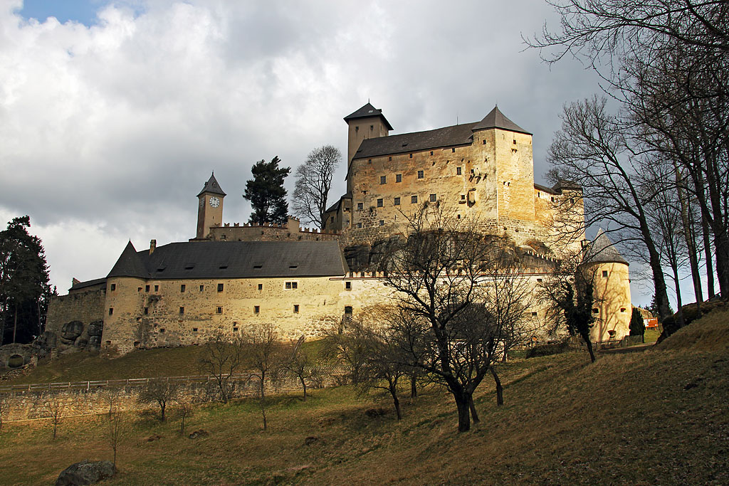 Rappottenstein castle from the SW